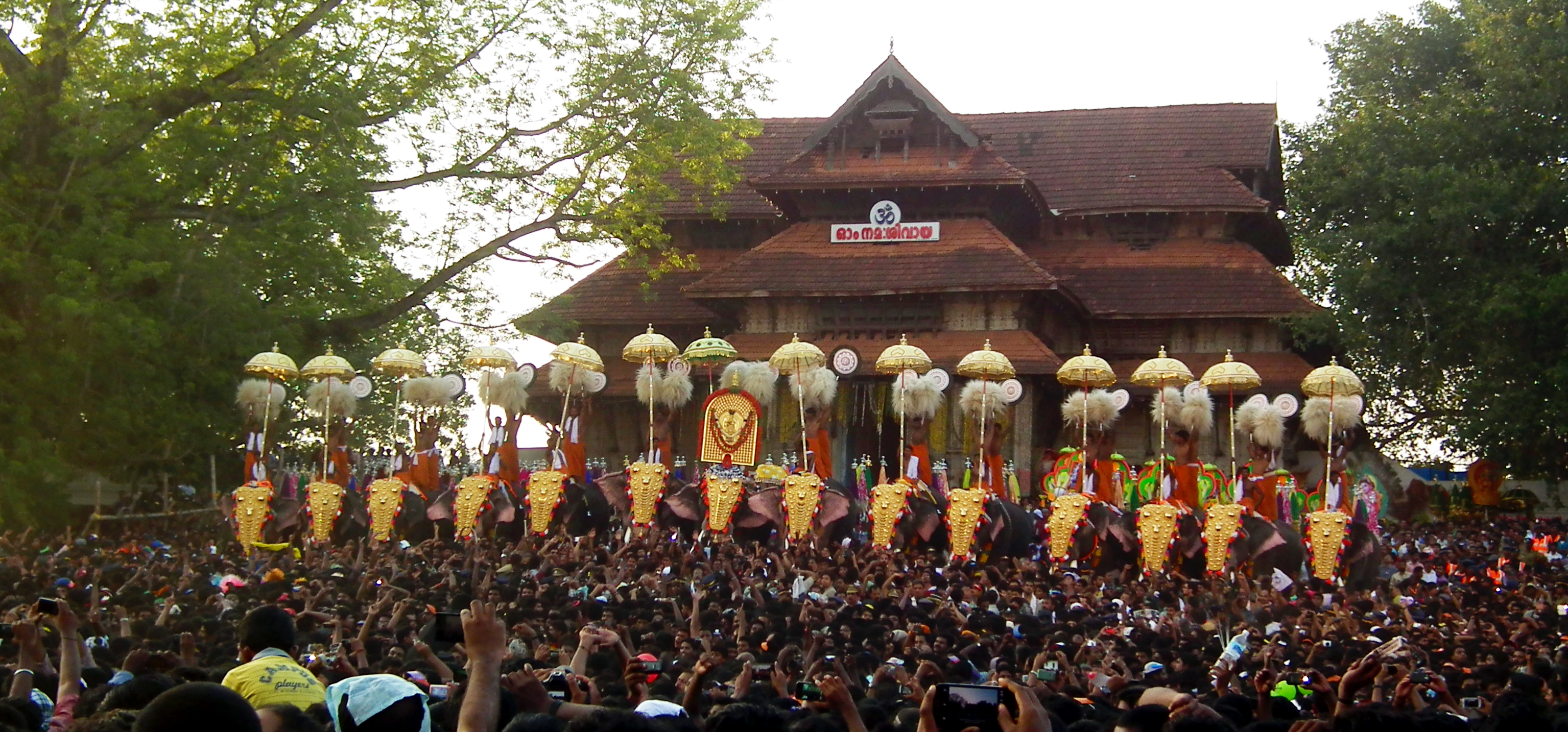 A Snap from the Kudamatom at Thrissur Pooram 2013